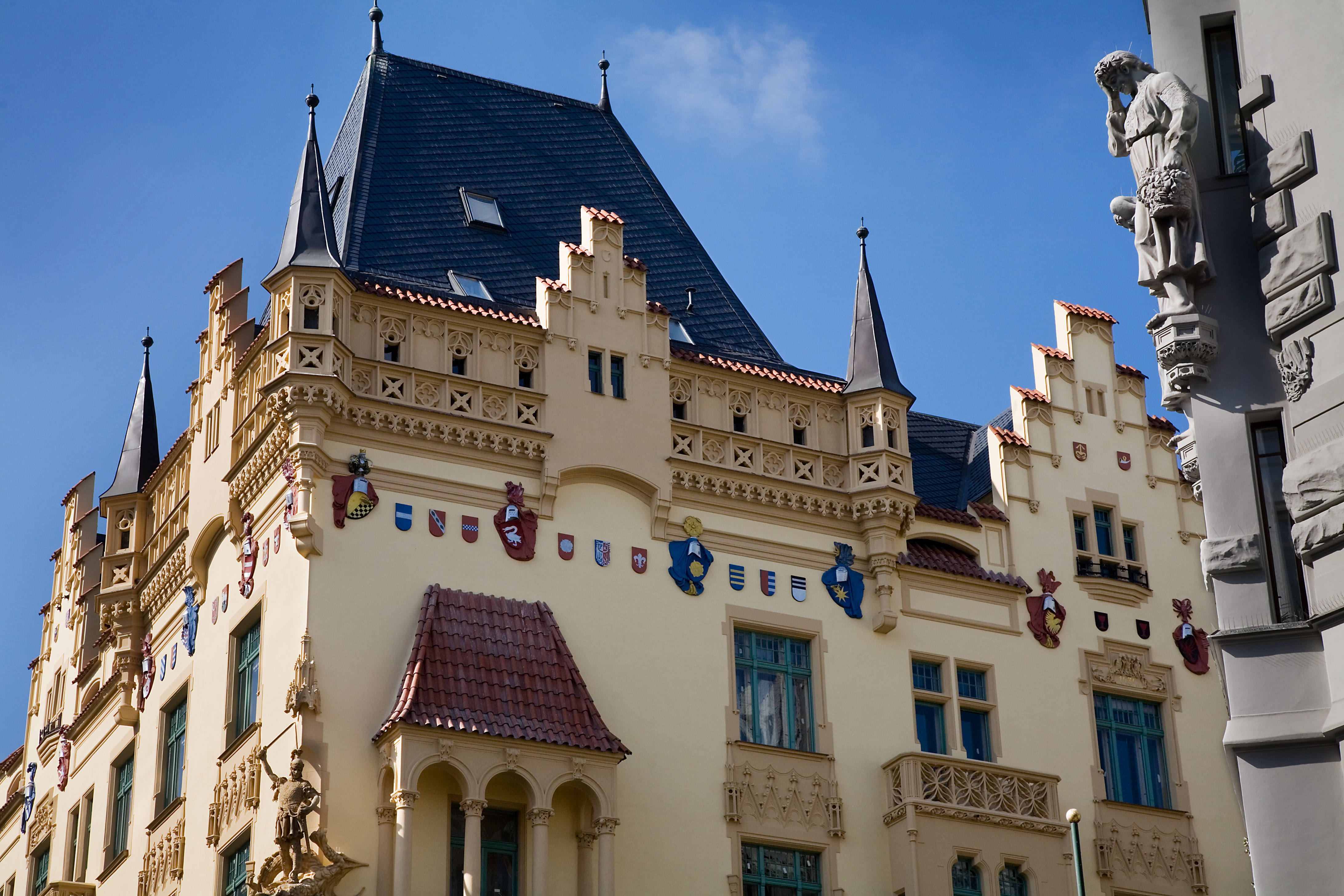 Vintage Building details in the Old Town. Prague, Czech Republic